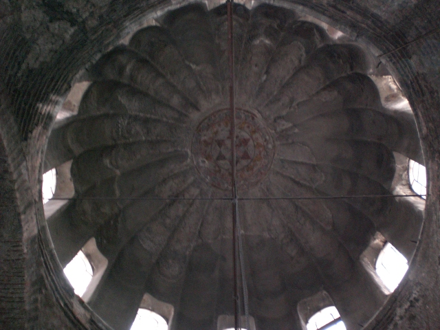 Photo of interior of Feres church, Evros, Greece